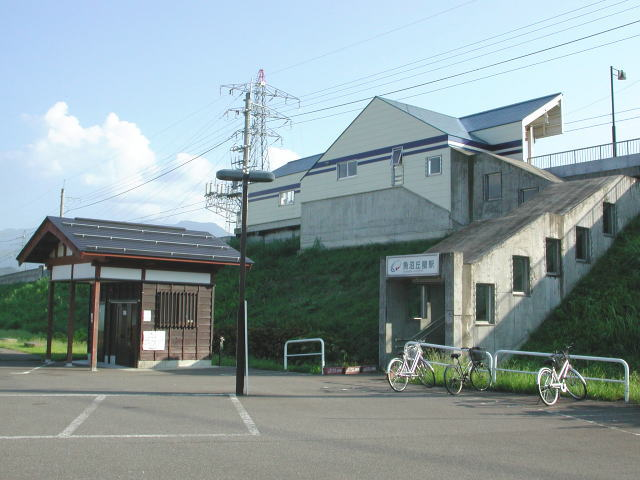 Uonuma-Kyūryō Station, Minaiuonuma, Niigata, Japan